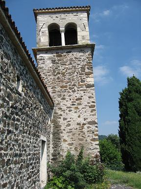 San Zeno church